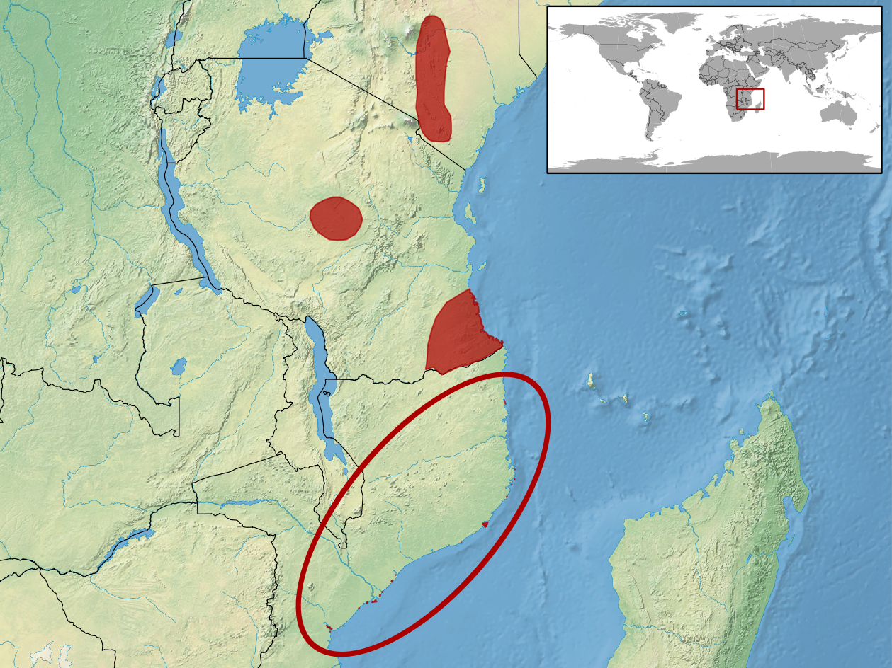 geographic distribution of Trachylepis margaritifera